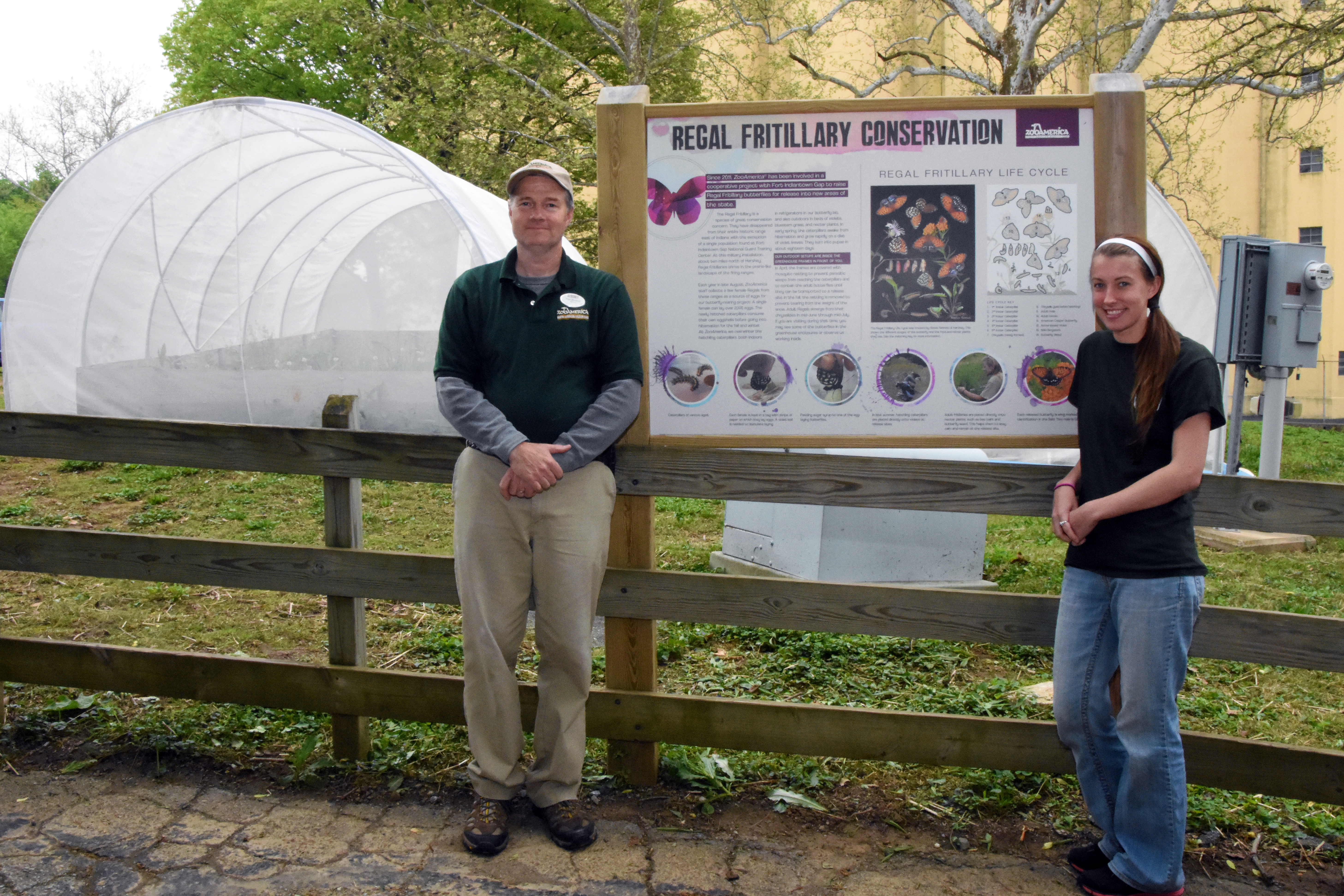 Tim Becker, ZooAmerica naturalist, and Erika McKinney, Fort Indiantown Gap research associate, stand outside the butterfly houses on the grounds of ZooAmerica in Hershey, Pa. The zoo and Fort Indiantown Gap are in the middle of their fifth season on a collaborative conservation project involving the rare regal fritillary butterfly that is found at the South Central Pennsylvania military installation. (U.S. Air National Guard photo by Tech. Sgt. Ted Nichols/Released) Unit: Fort Indiantown Gap